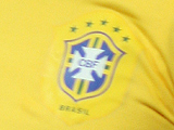 The five stars of the Brazil national football team jersey.